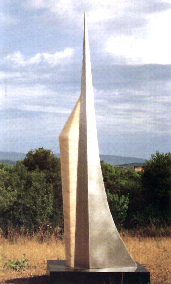 Auf Elba gesetzte Segel Large sculpture in stainless steel and marble / granite, height: 2,45 m